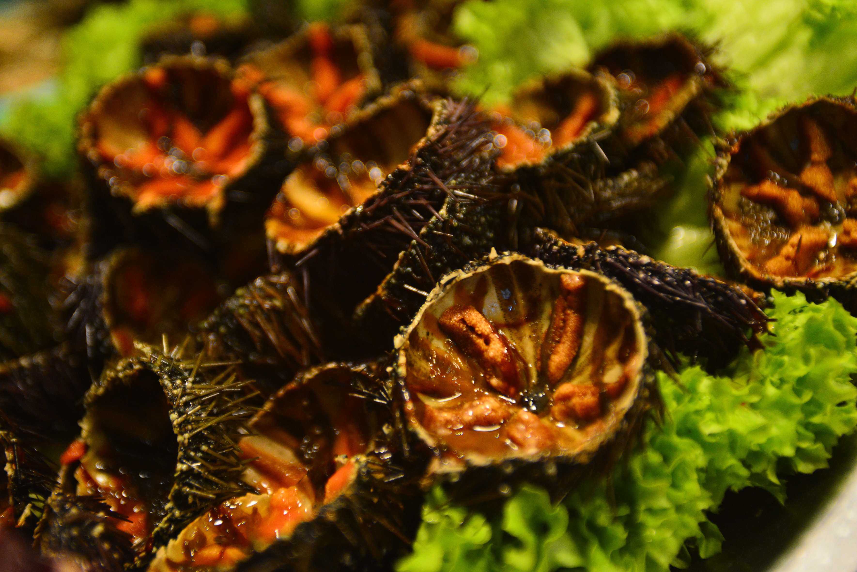 Piràmide d'aliments de l'Empordà